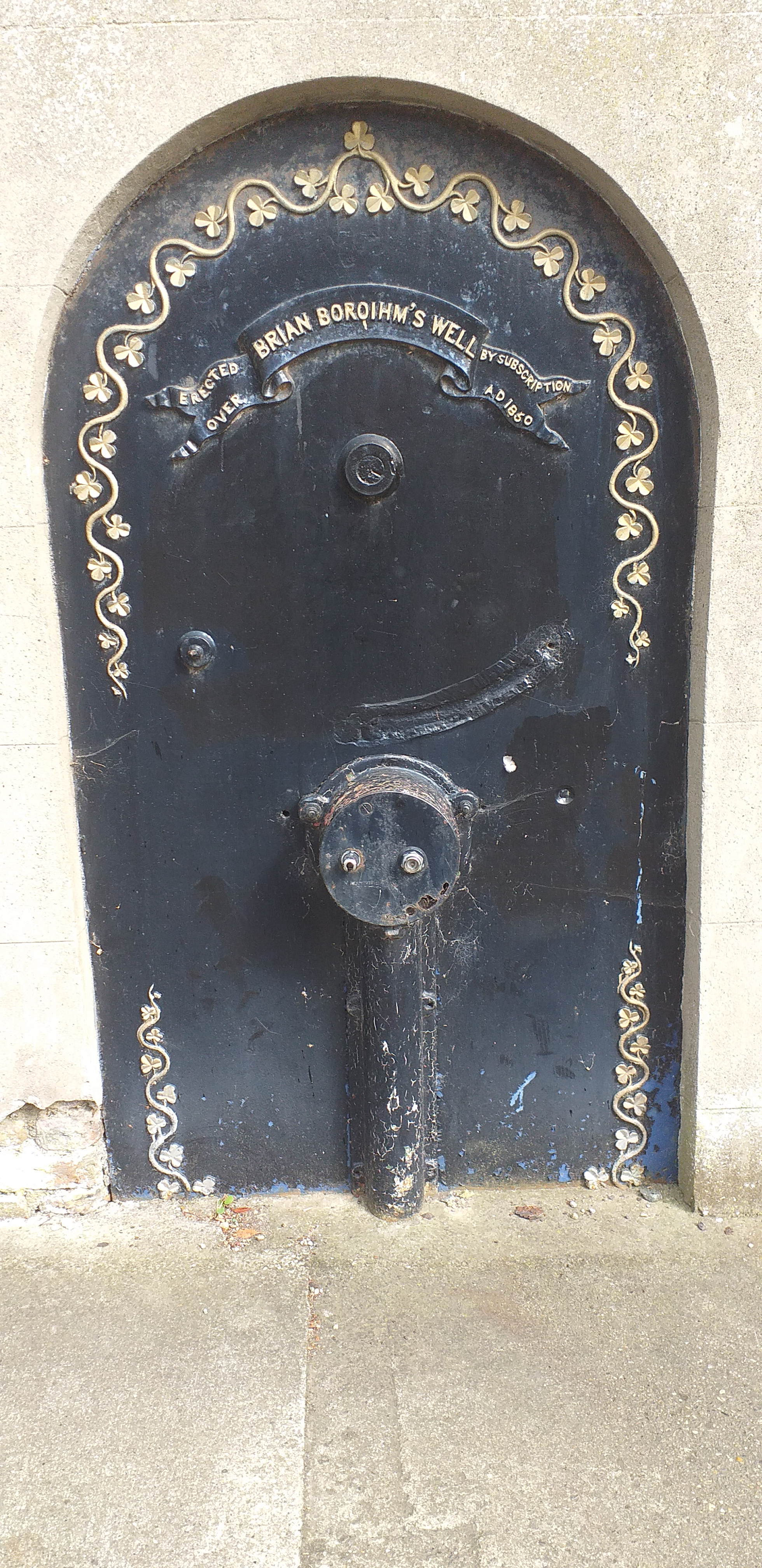 The Brian Boru well on Castle Avenue in Clontarf is reputed to be the well mentioned in accounts of the Battle of Clontarf, where Brian Boru's men refreshed themselves during the battle. The commemorative drinking fountain marking the spot of the well was erected in 1850.